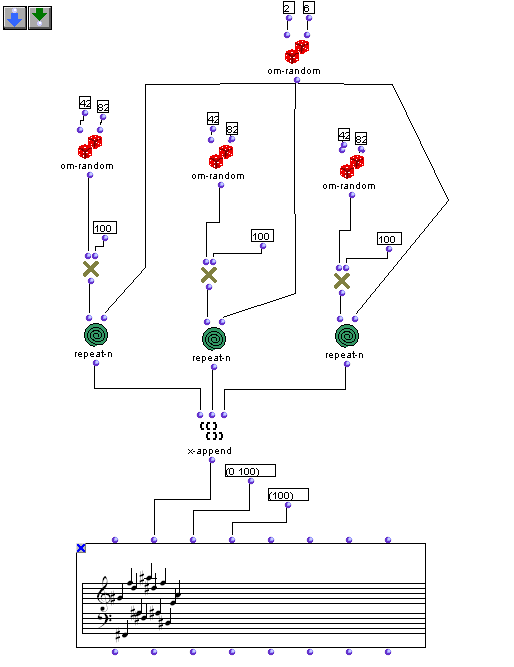 The image was made by myself.